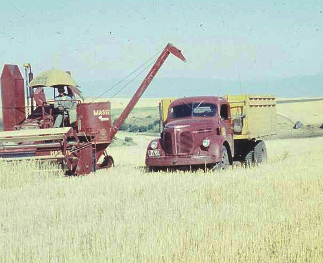 1948 REO SpeedWagon. 2 1/2 ton truck used for hauling grain on the Camas Prairie near Fenn, Idaho